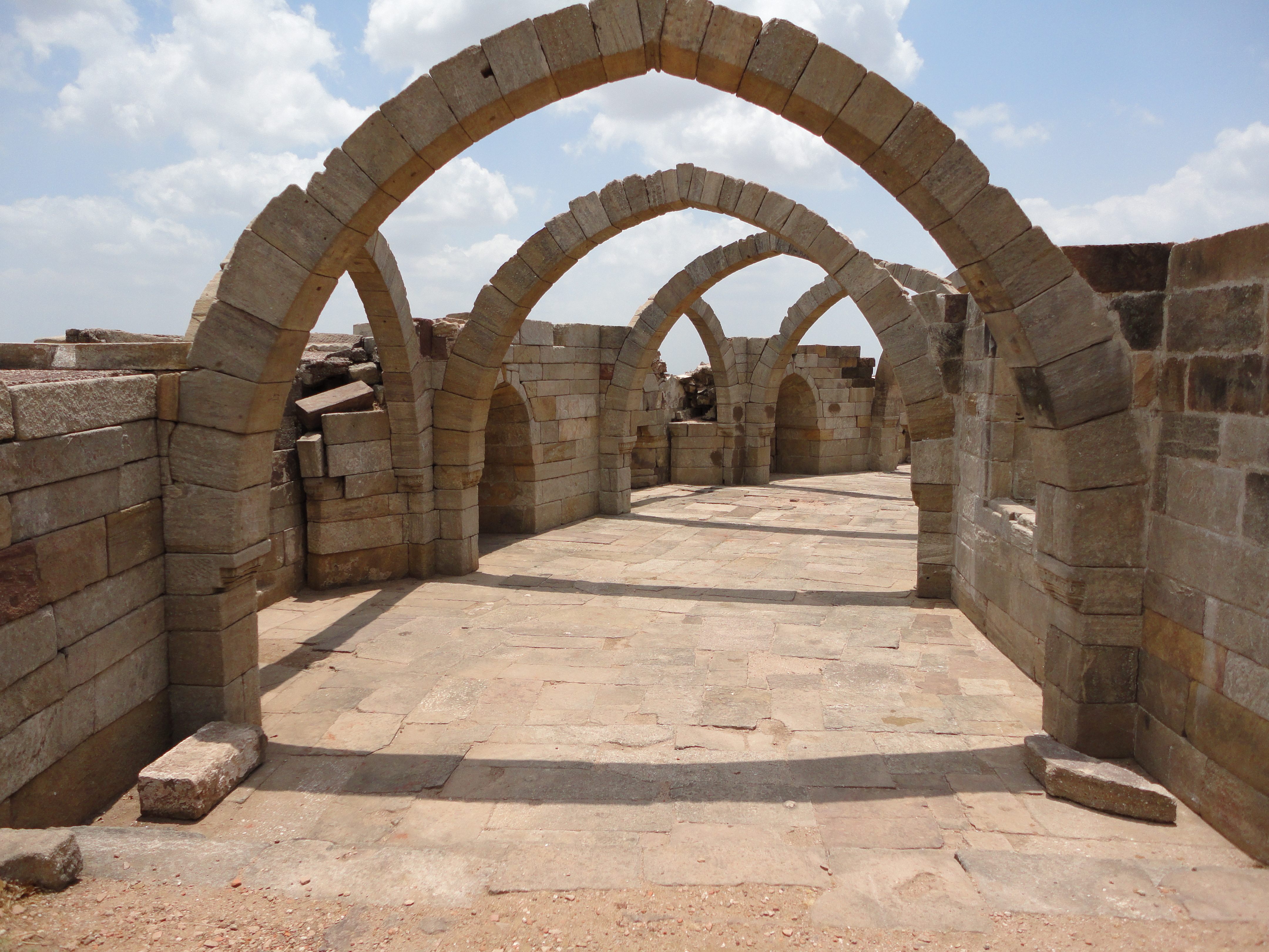 Sat Kaman is in Pavaghad, Panchmahal District of Gujarat